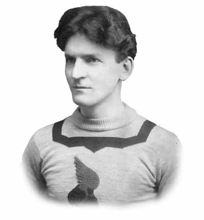 Harry Trihey of the Montreal Shamrocks, c. 1899